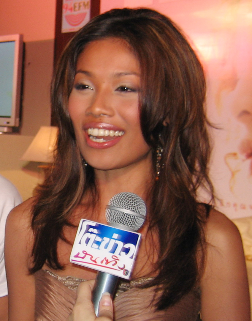 Thai actress Porntip "Cartoon" Papanai at the press preview for Ploy at SF World, CentralWorld, Bangkok.